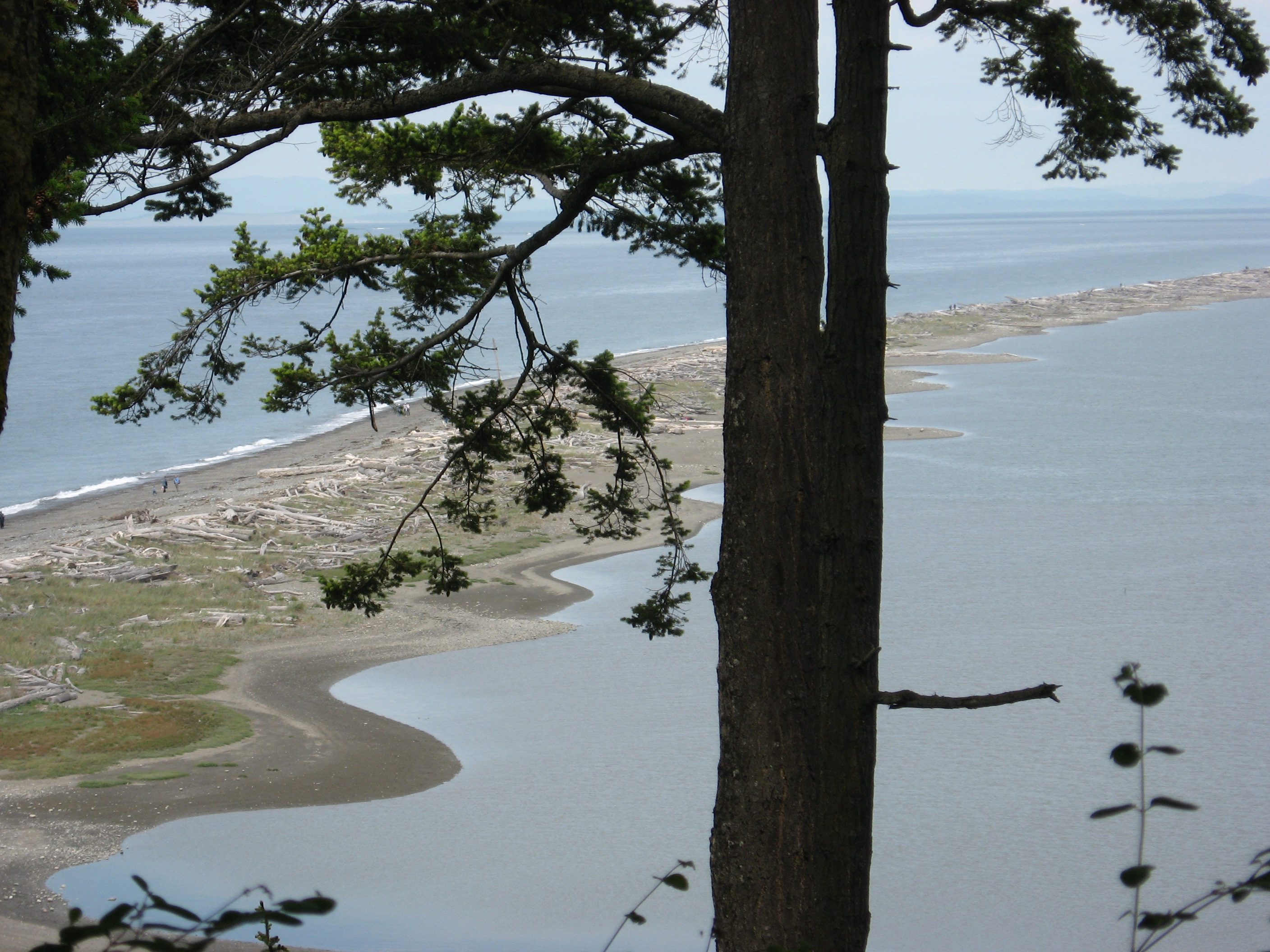 Dungeness Spit, in Dungeness National Wildlife Refuge, Washington State, USA